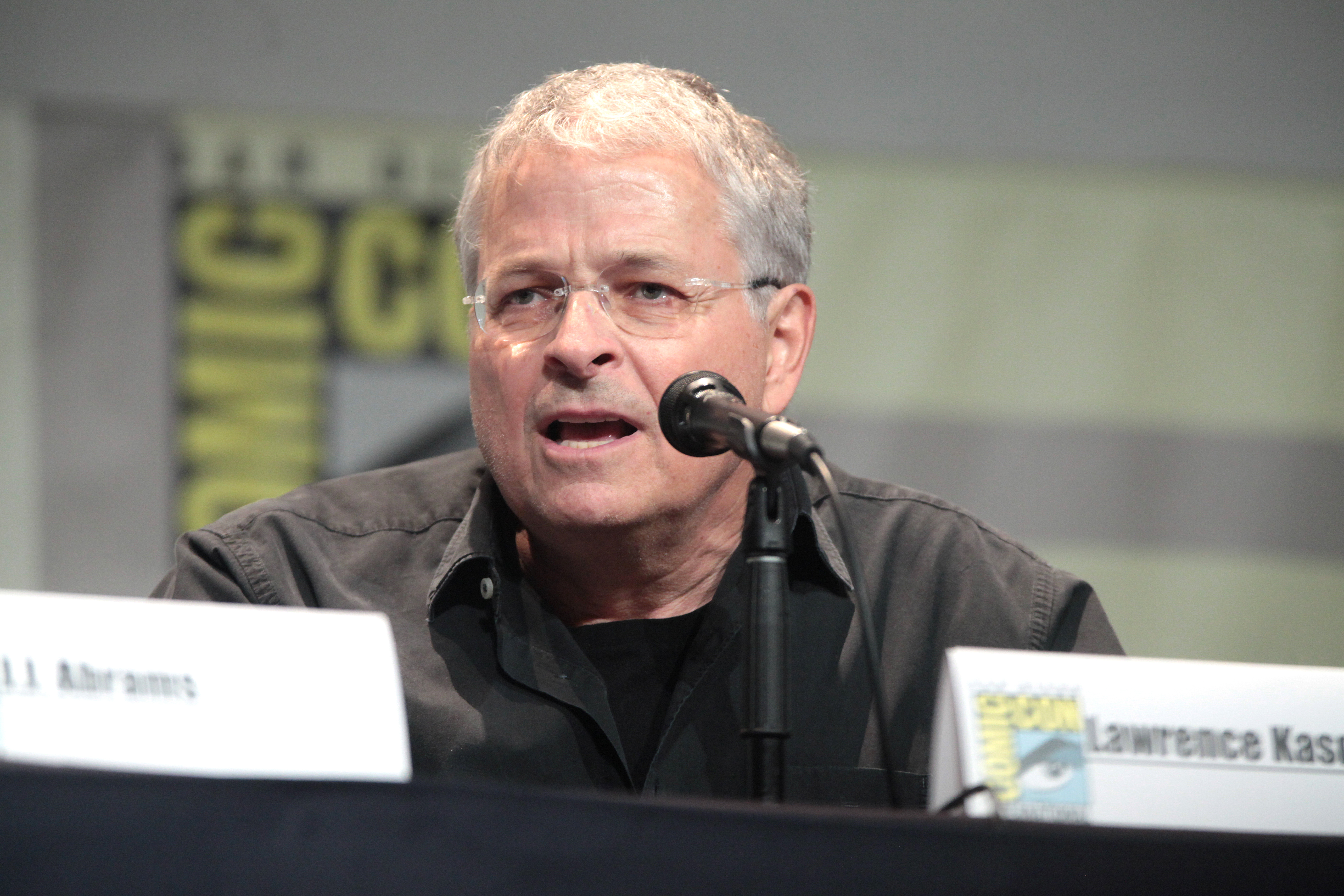 Lawrence Kasdan speaking at the 2015 San Diego Comic Con International, for "Star Wars: The Force Awakens", at the San Diego Convention Center in San Diego, California.